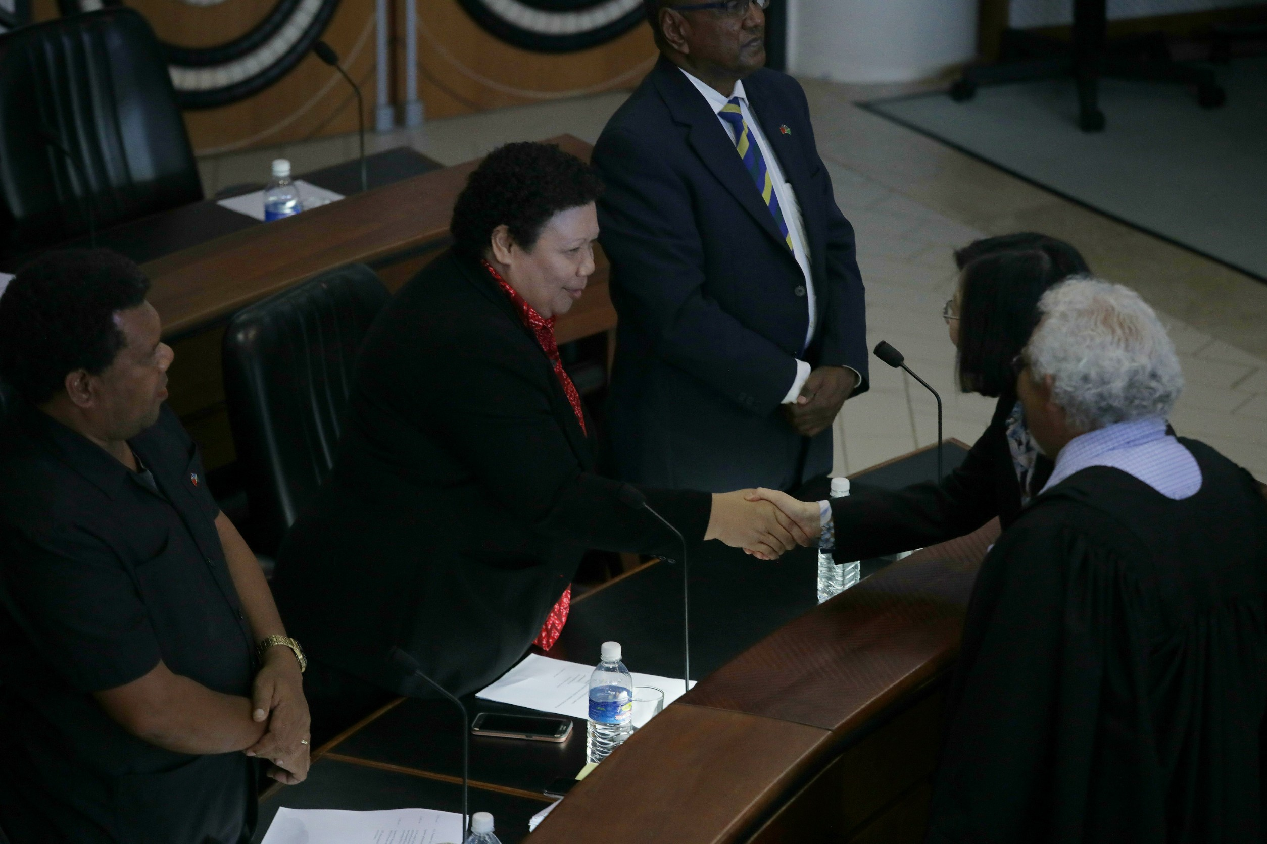 Picture from President Tsai Ing-wen's December 2017 state visit to Solomon Islands, lasting from December the first to December the second. On the morning of October 28, President Tsai Ing-wen departed on her trip to visit three diplomatic allies in the Pacific—the Marshall Islands, Tuvalu, and the Solomon Islands. Her departure marked the beginning of an eight-day, seven-night trip with the theme "Sustainable Austronesia, Working Together for a Better Future—2017 State Visits to Pacific Allies." Source (English): President Tsai issues remarks before visiting three Pacific allies. Source (Chinese): 新聞與活動